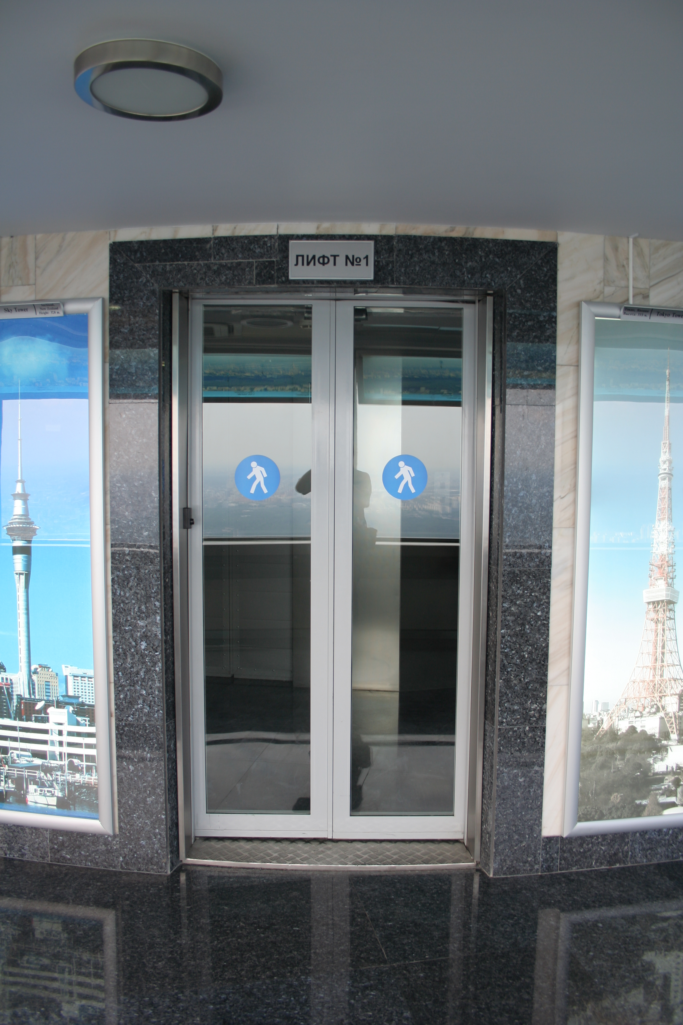 Ostankino TV Tower, Moscow; views inside